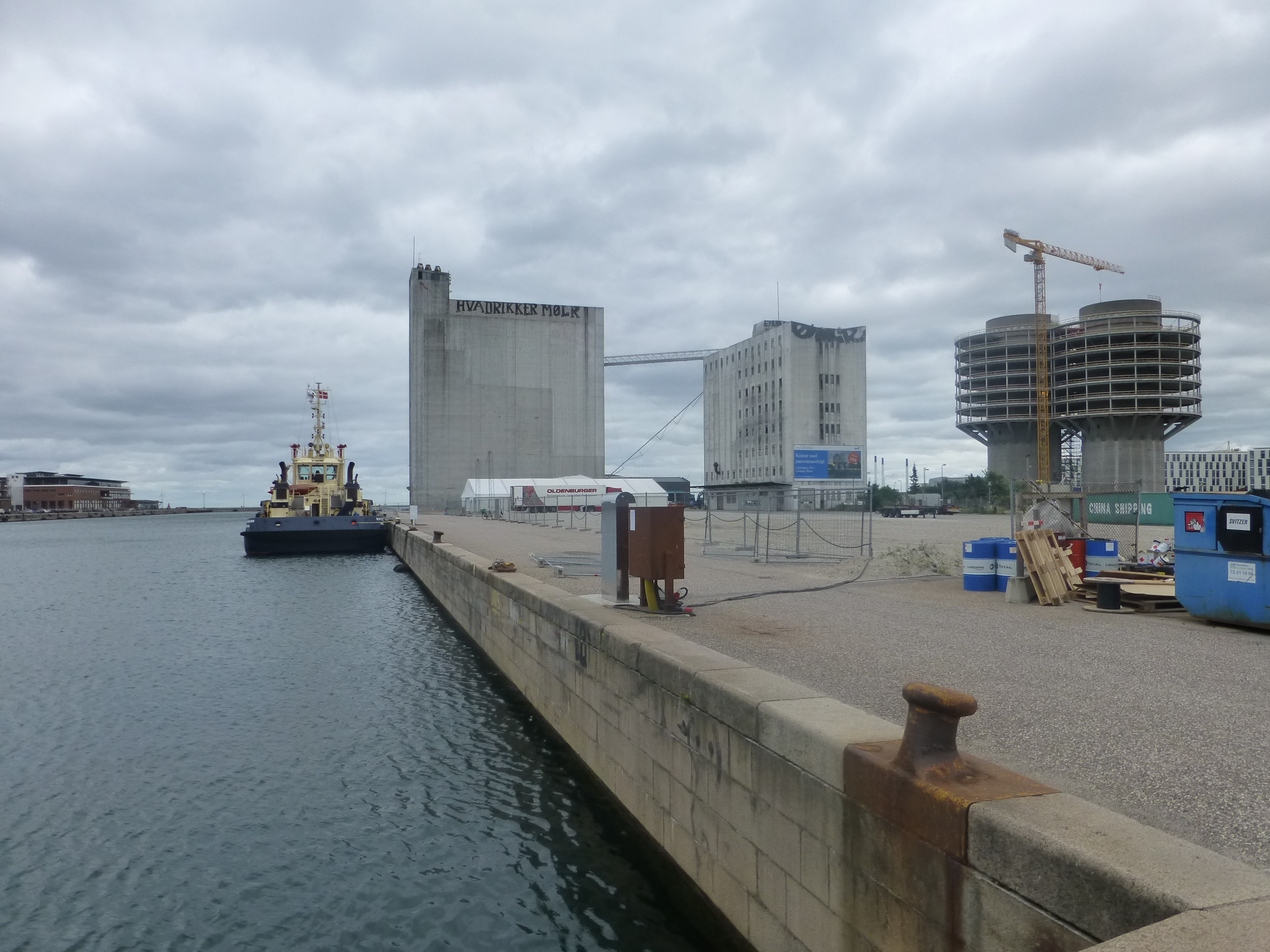 The wharf Fortkaj in Nordhavn in Copenhagen.